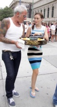 Leighton Meester on-location for Gossip Girls outside the Metropolitan Museum of Art in New York City (July 13, 2009).